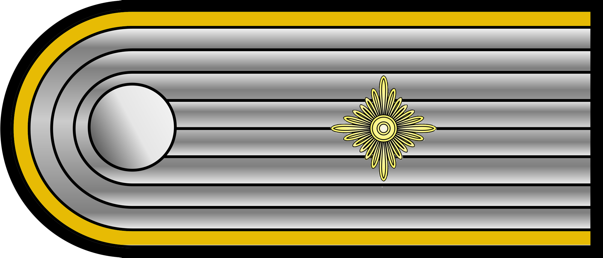 Rang insignia shoulder strap, here SS-Oberstrurmffuehrer of the Waffen-SS until 1945, corps colour “gold” of the SS-Cavalry.